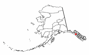 Adapted from Wikipedia's AK borough maps by Seth Ilys.